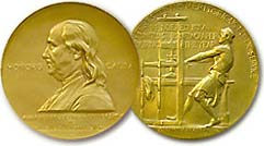 The Pulitzer Prize gold medal award